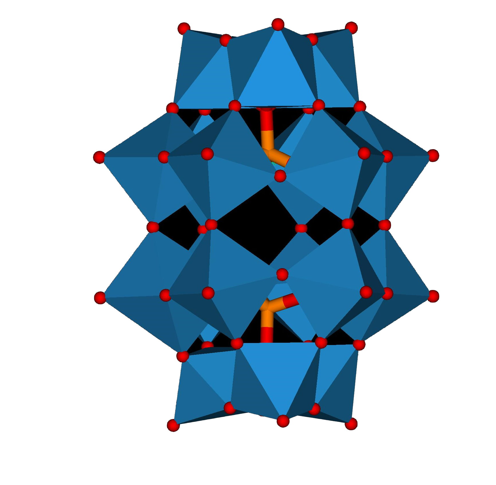 image of Dawson polyxometalate ion P2M18O62